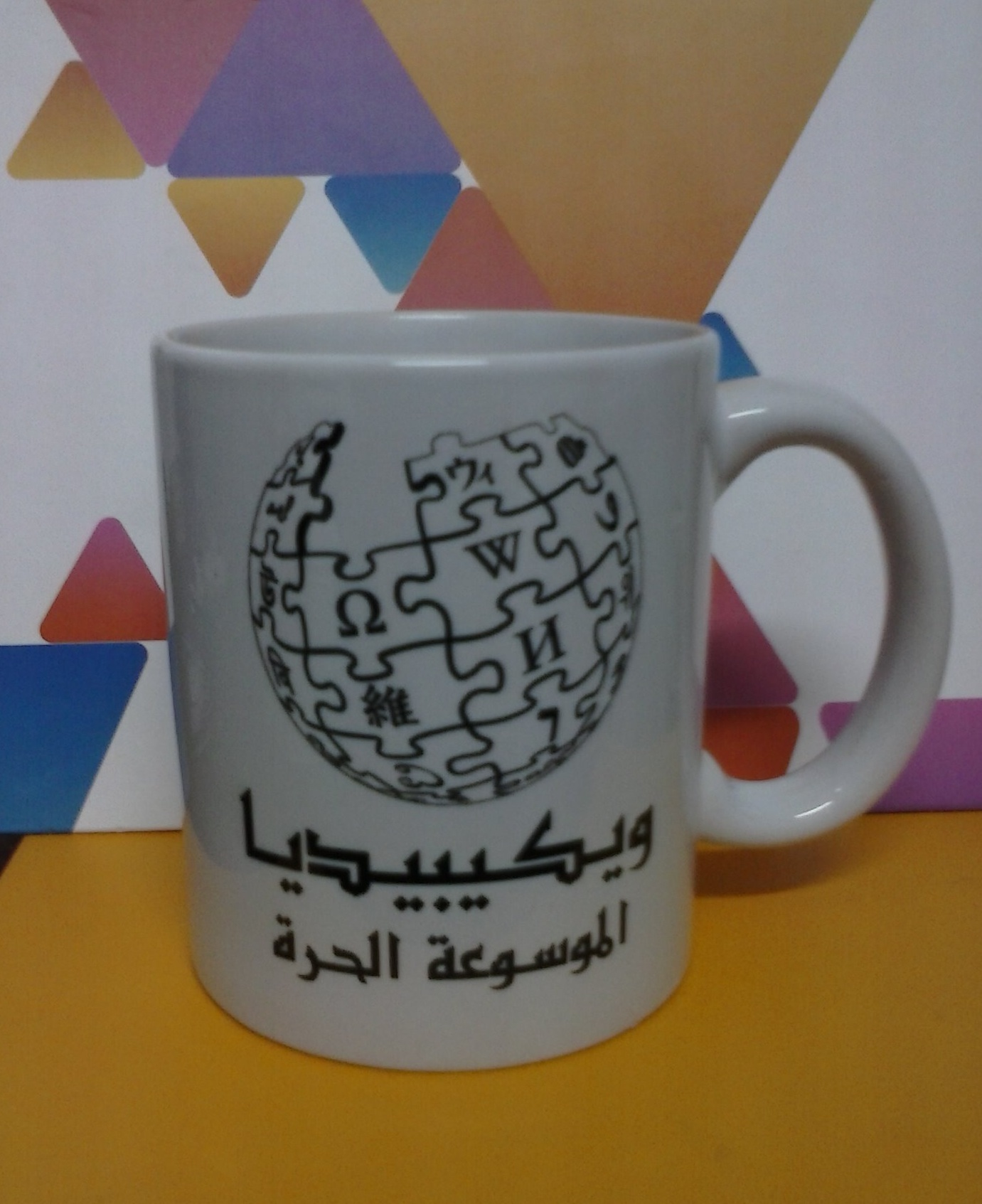 Mug with Wikipedia's logo and the word "Wikipedia" in Arabic given as gifts for students in WEP.